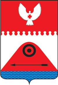 Debessky rayon (Udmurtia), coat of arms